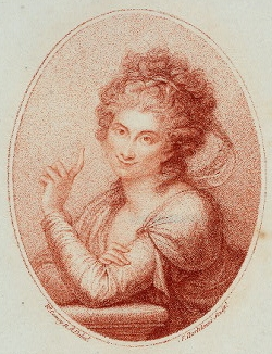 Italian opera singer Maddalena Allegranti (1755-1829)